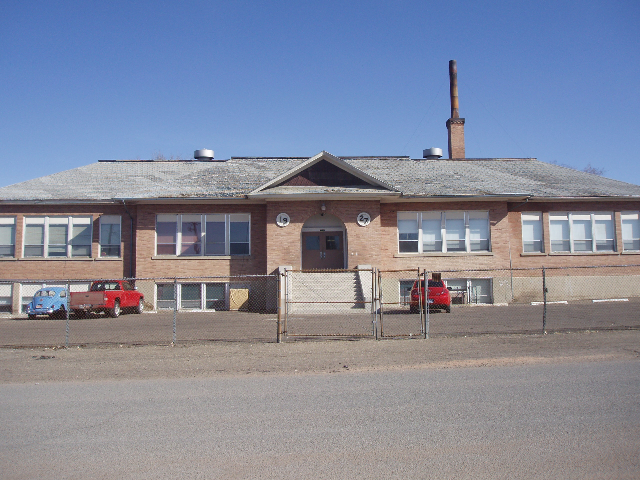 Built in 1927 as a schoolhouse in Spring Glen, Utah, United States, this building now houses a church.